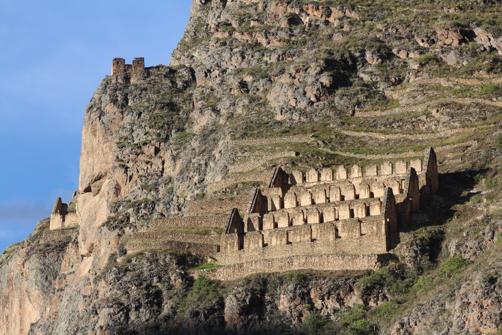 Esta construida sobre las escarpadas laderas de un cerro, en las inmediaciones de Ollantaytambo. Una serie de andenes conforma la base sobre la que se ha edificado. Se le atribuye la función de colca osea cara del inca, depósito destinado al almacenamiento de una gran variedad de productos.